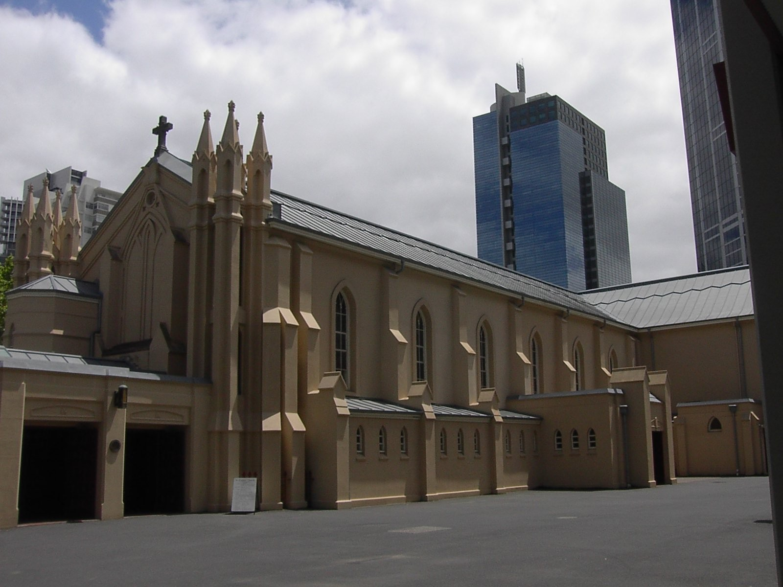 Photo by User:Adam Carr, November 2005